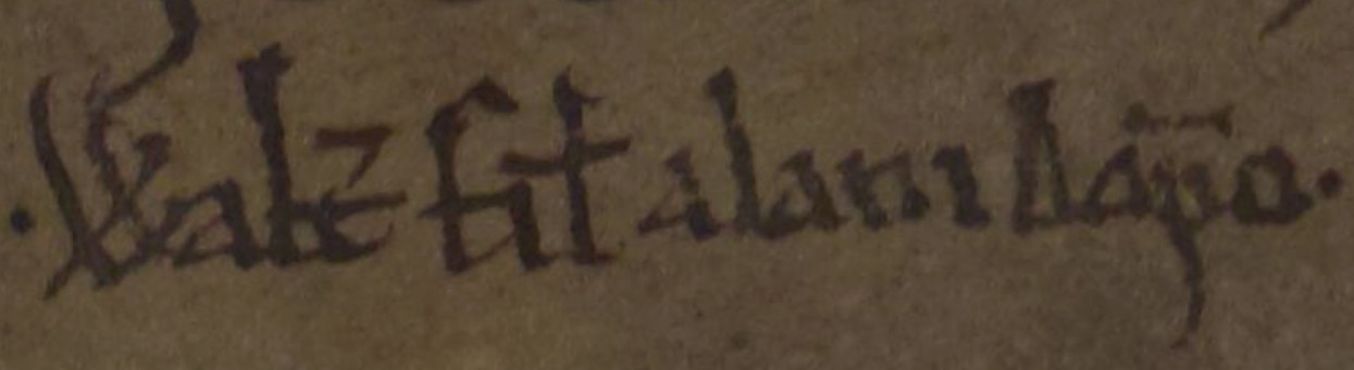 The name and title of Walter fitz Alan, Steward of Scotland (died 1177) as it appears on a charter of Malcolm IV, King of Scotland (died 1165) to Holyrood Abbey. The excerpt reads: "Walter filio alani Dapifero".